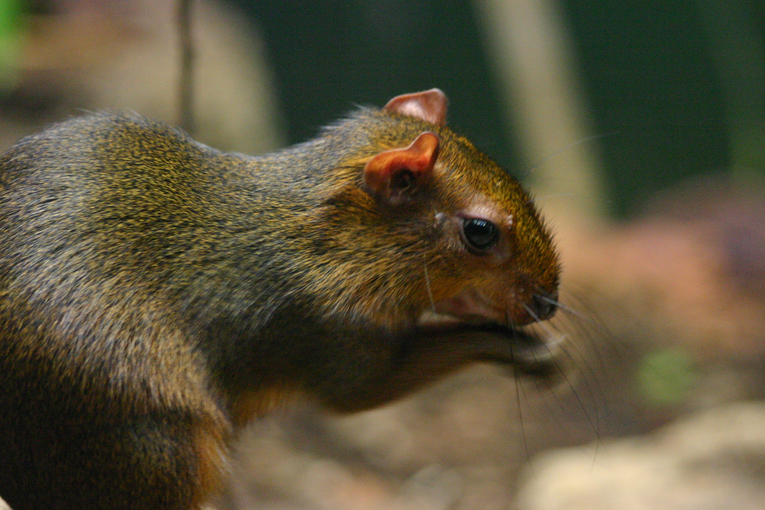 Myoprocta pratti Green Acouchi: Brian Gratwicke